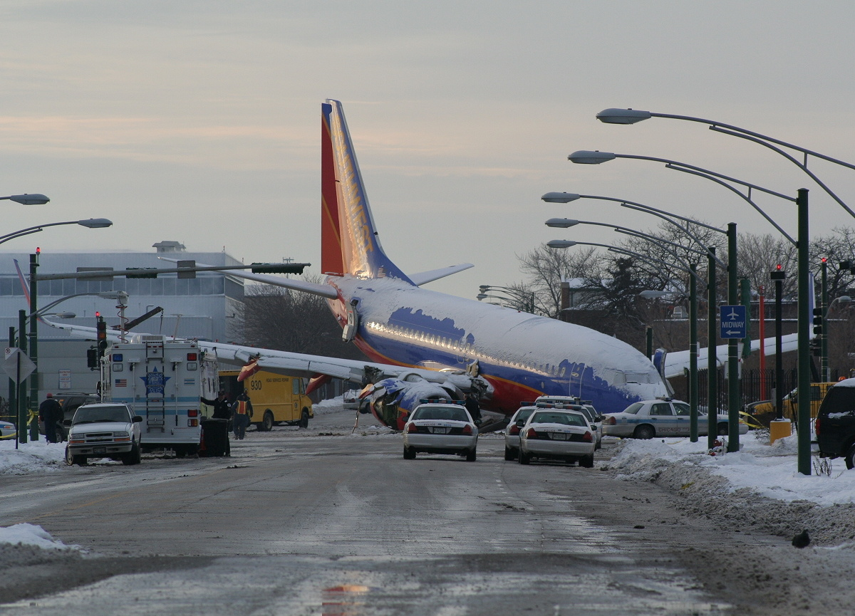 View of the front of Southwest Airlines Flight 1248. This aircraft, N471WN, crashed into the perimeter fence of Chicago Midway International Airport on December 8, 2005. Photo taken and used with permission by: Gabriel Widyna This photo can be found at